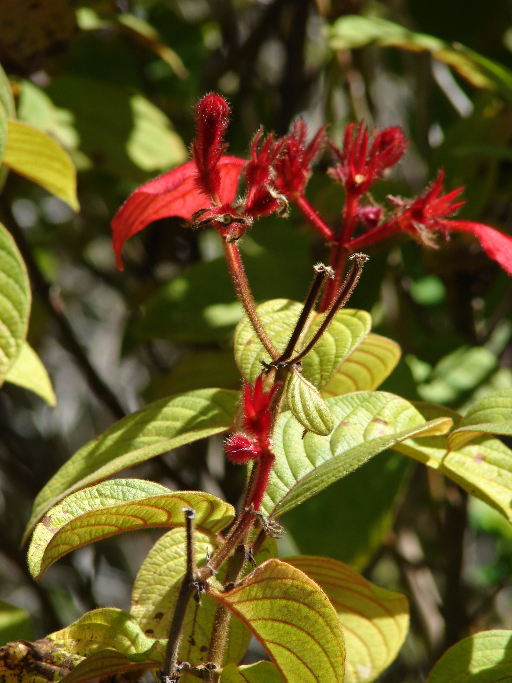 Mussaenda erythrophylla (flowers). Location: Maui, Enchanting Floral Gardens of Kula